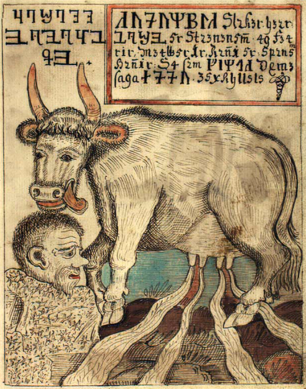 An illustration of the cow Auðumbla licking Búri out of a salty ice-block, from an Icelandic 18th century manuscript.